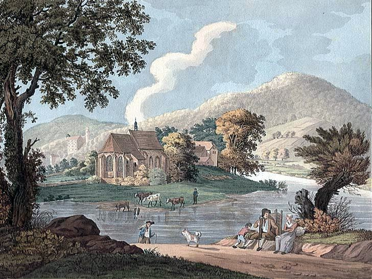 Carl Ludwig Roeck: Ansicht von Hirschhorn am Neckar, Aquarell 1810, AHL, Nachlass Roeck